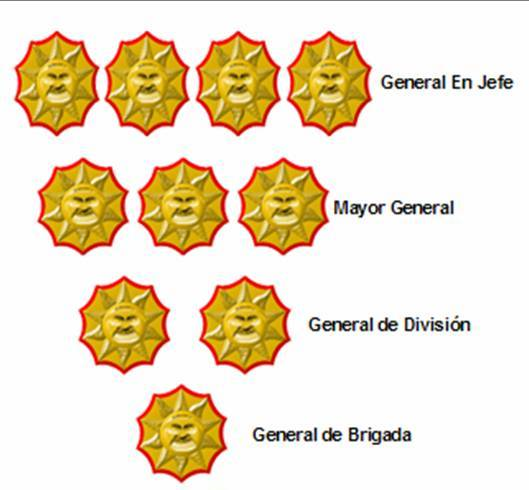 Army, National Guard, Air Force and Militia Officer Ranks in Venezuela